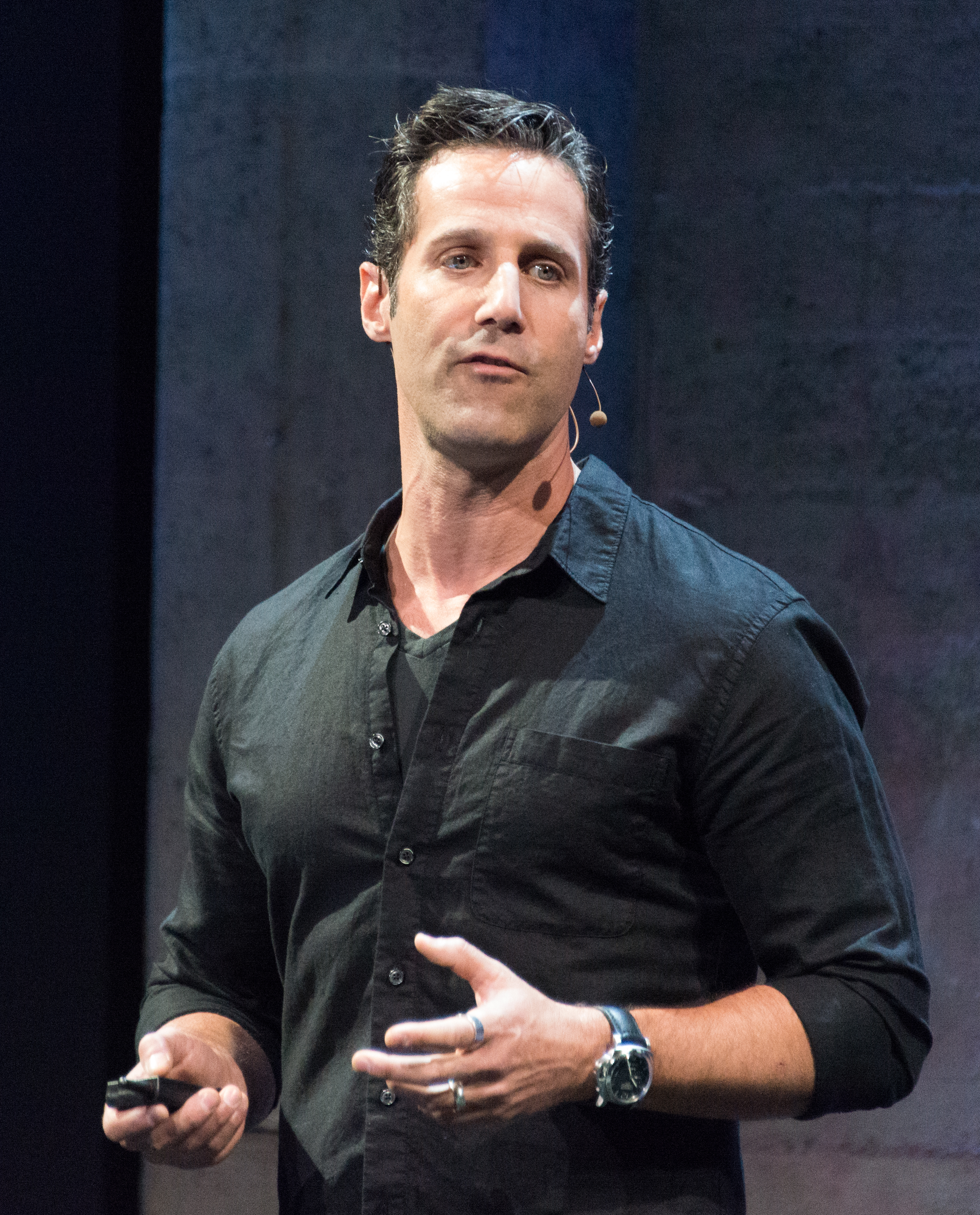 Jason Rubin (Head of Studios, Oculus) speaking at Step into the Rift.